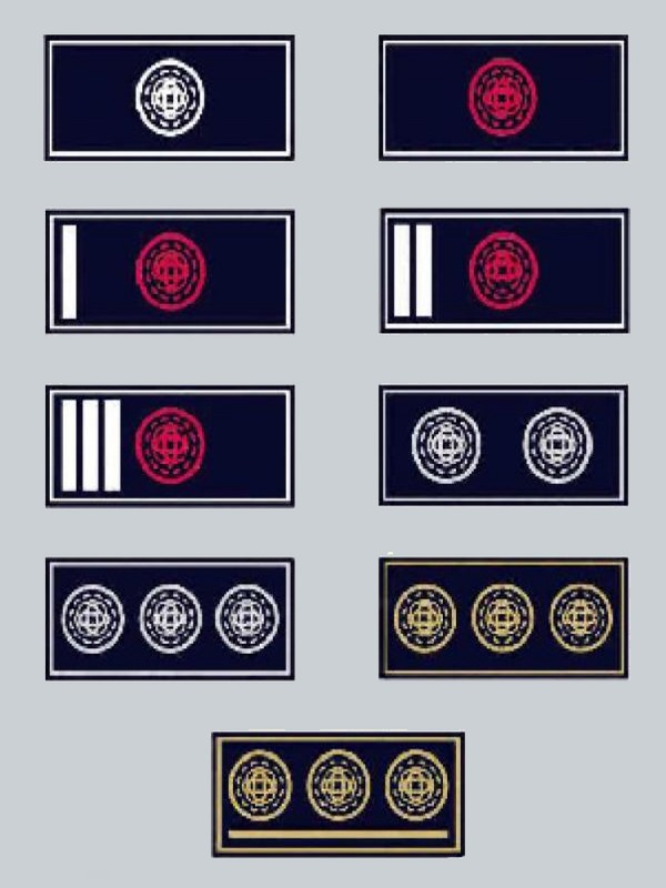 Rank insignia of the General Police Corps of the Canary Islands: Polícia en prácticas (Police trainee) Polícia (Police officer) Oficial (Police sergeant) Subinspector (Police lieutenant) Inspector (Police captain) Subcomisario (Deputy police inspector) Comisario (Police inspector) Comisario principal (Assistant chief of police) Comisario principal jefe (Chief of police)